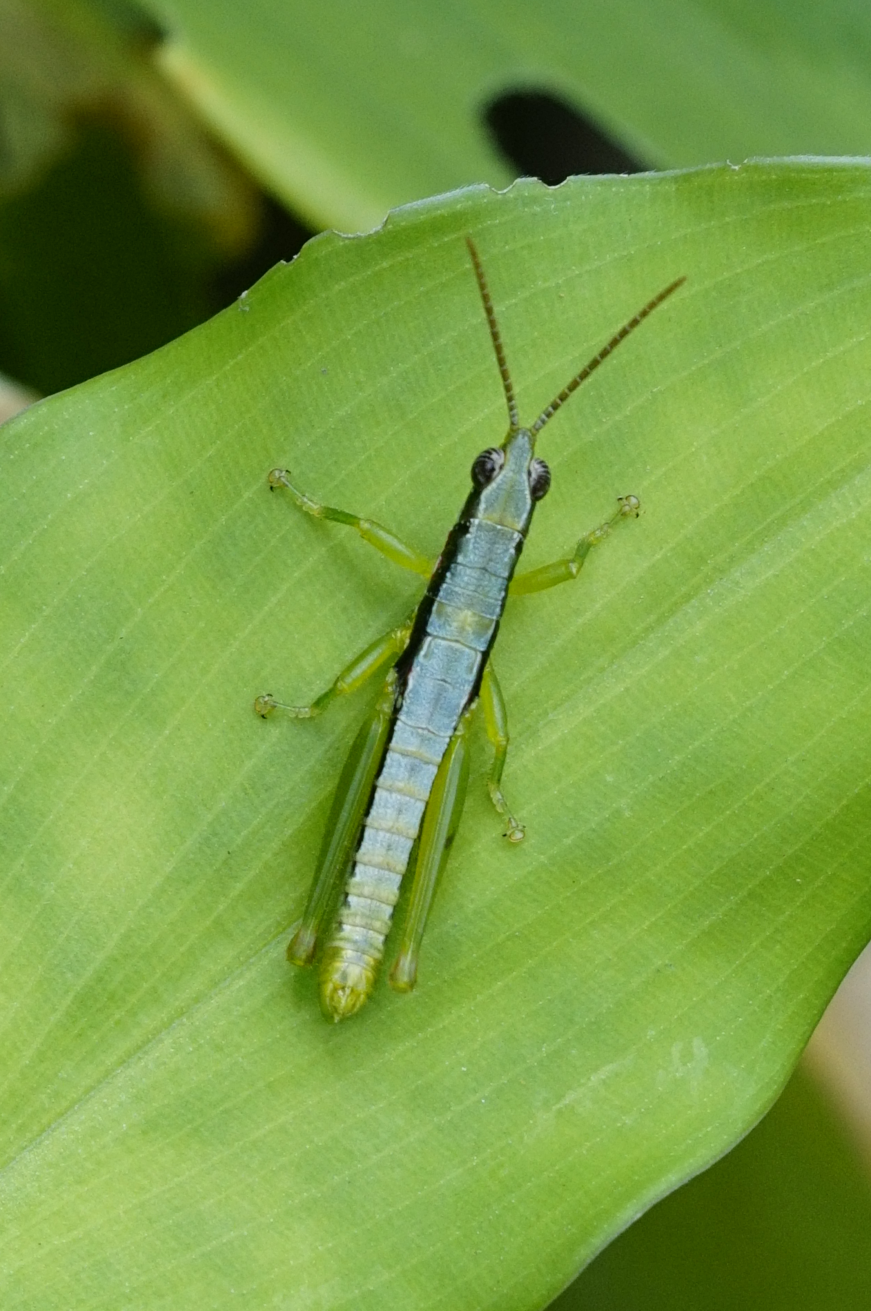 probably Neorthacris sp.